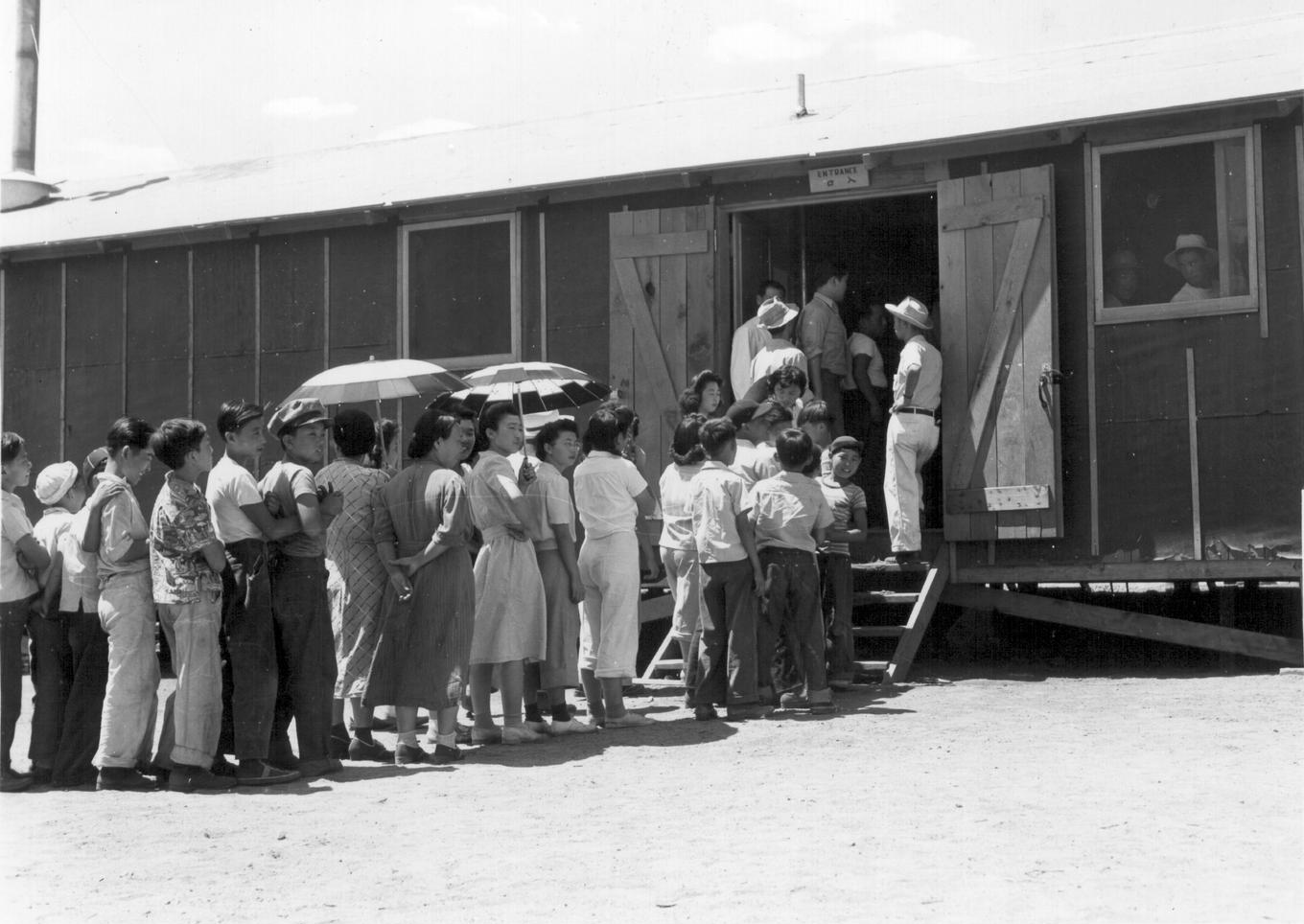 Title: Part of a line waiting for lunch outside the mess hall at noon. Photographer: Lange, Dorothea -- Manzanar, California. 7/1/42 Identifier: Volume 21 Identifier: Section C Identifier: WRA no. C-670 Collection: War Relocation Authority Photographs of Japanese-American Evacuation and Resettlement Series 8: Manzanar Relocation Center (Manzanar, CA) Contributing Institution: The Bancroft Library. University of California, Berkeley.